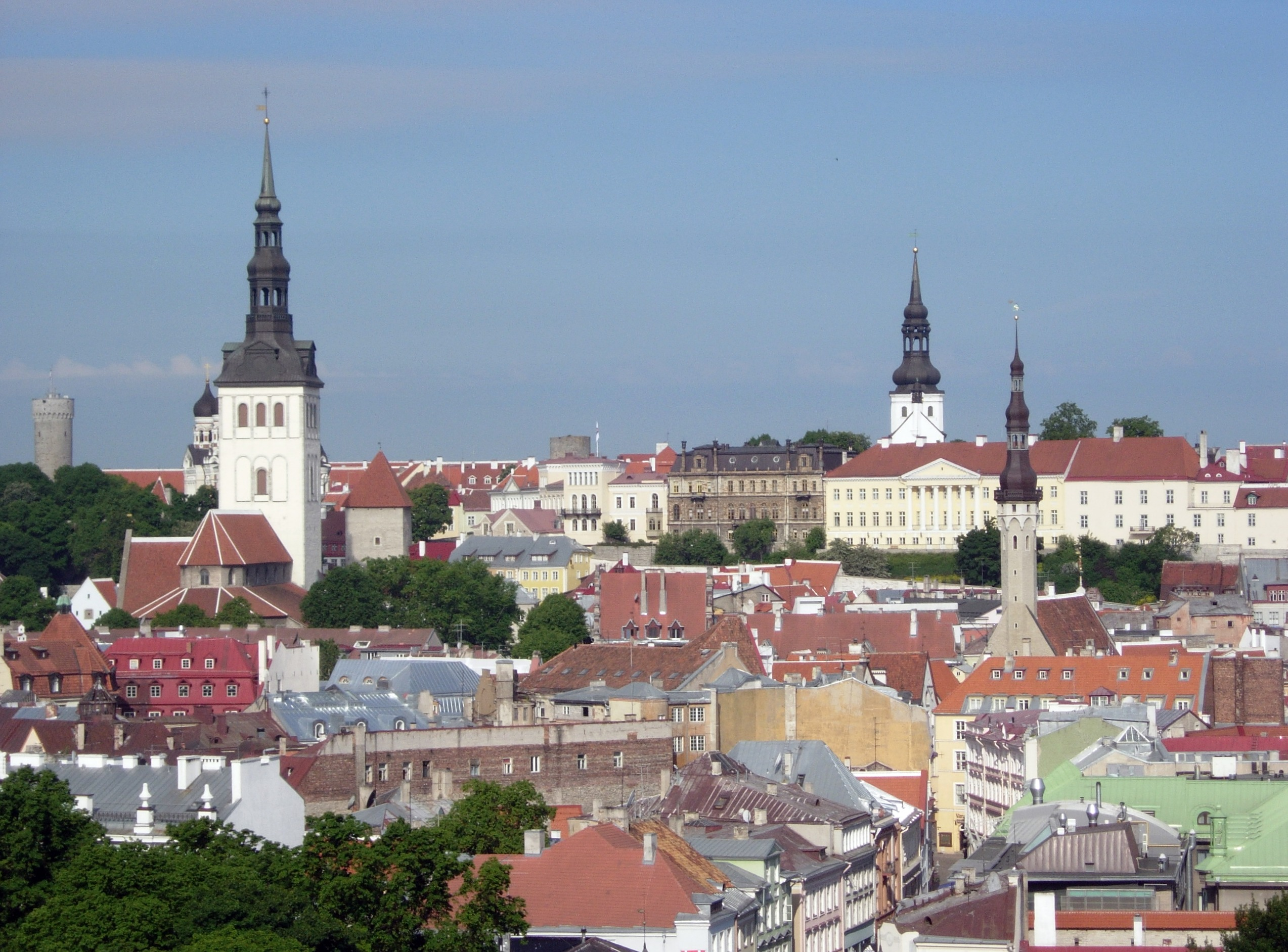 The old town of Tallinn, view from Viru Hotel.